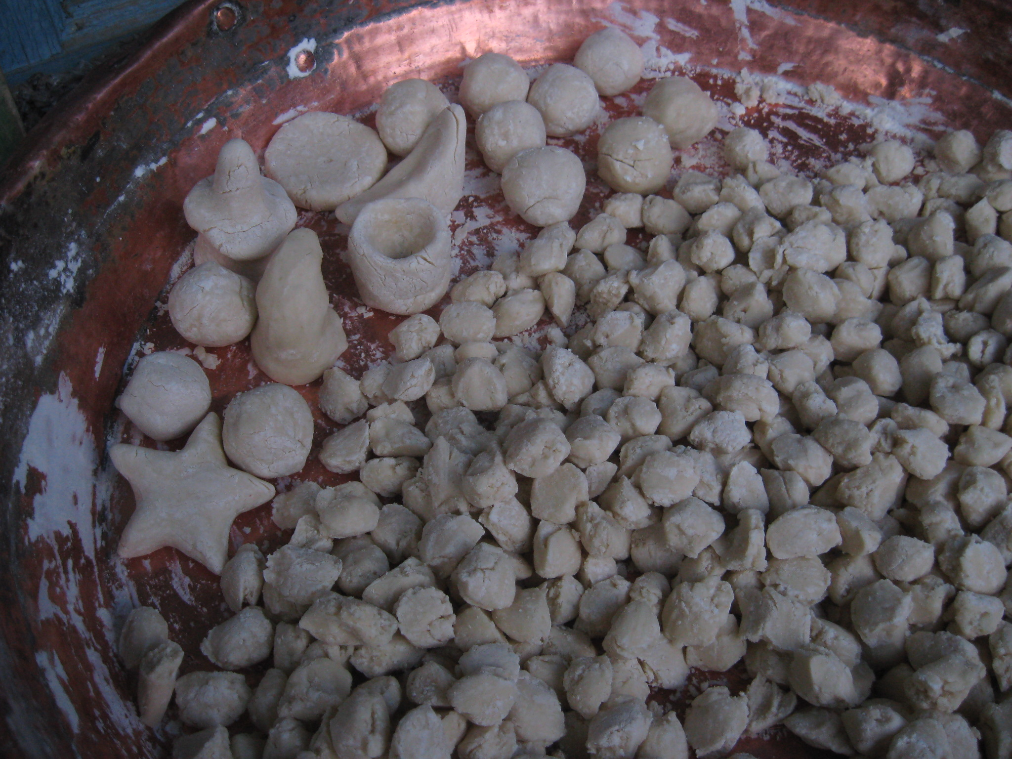 Guthuk